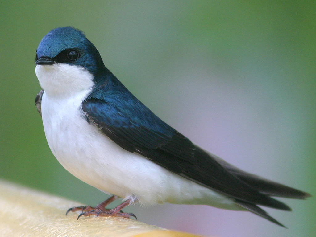 Description: Tree Swallow - Long Point, Ontario (Canada) 2004 Photograph: Mdf first upload in en wikipedia on 00:17, 12 May 2005 by Mdf Licence